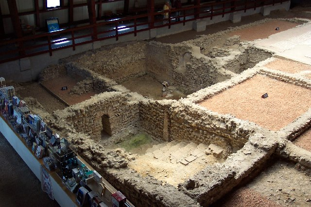 The Roman Villa at Lullingstone, Kent. The Roman Villa at Lullingstone was first built in about AD75 and developed over the following 350 years. Following excavation between 1947 and 1963 it is now owned by English Heritage.